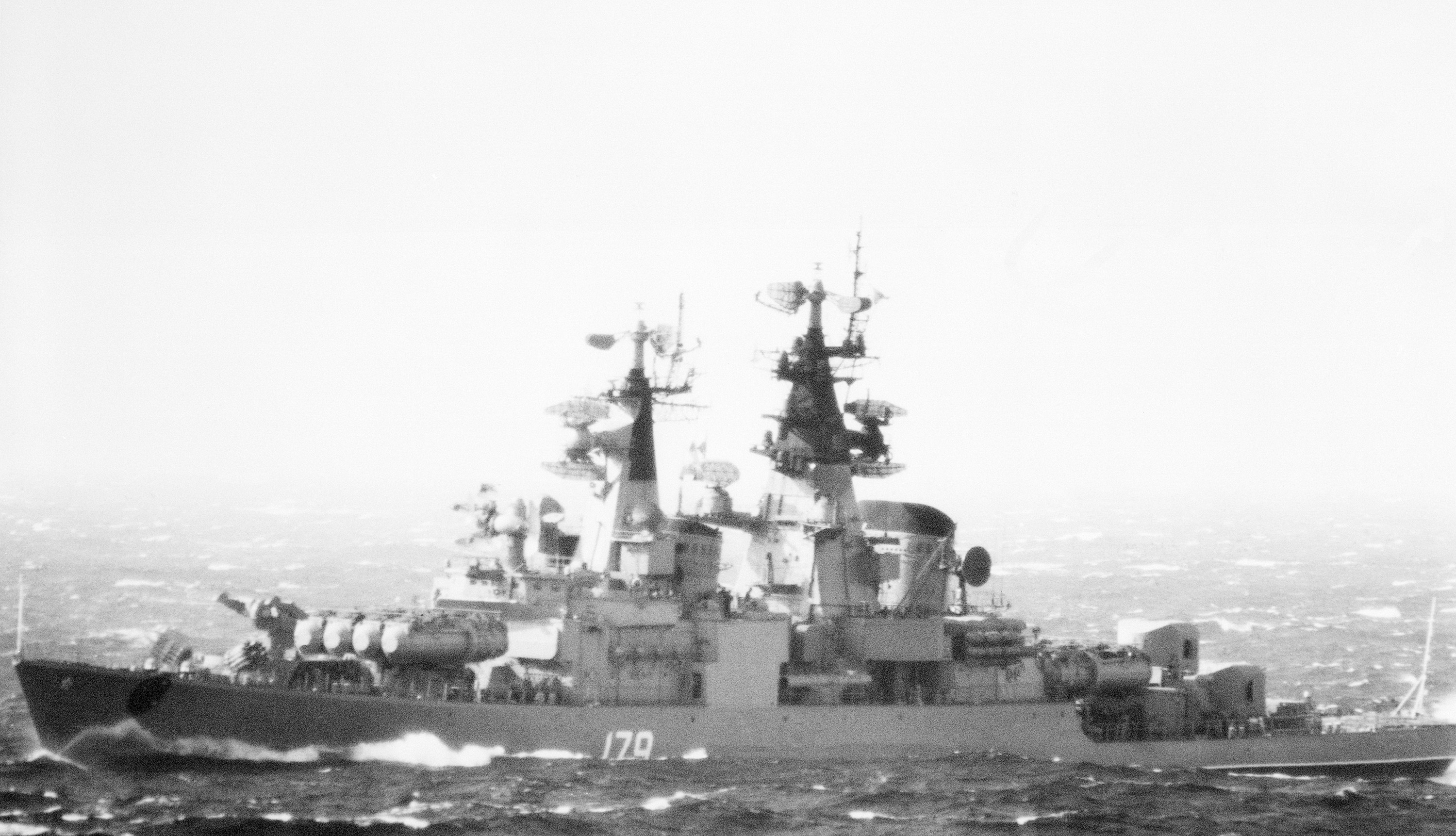 A port bow view of the Soviet guided missile cruiser GROZNYY underway. (SUBSTANDARD)